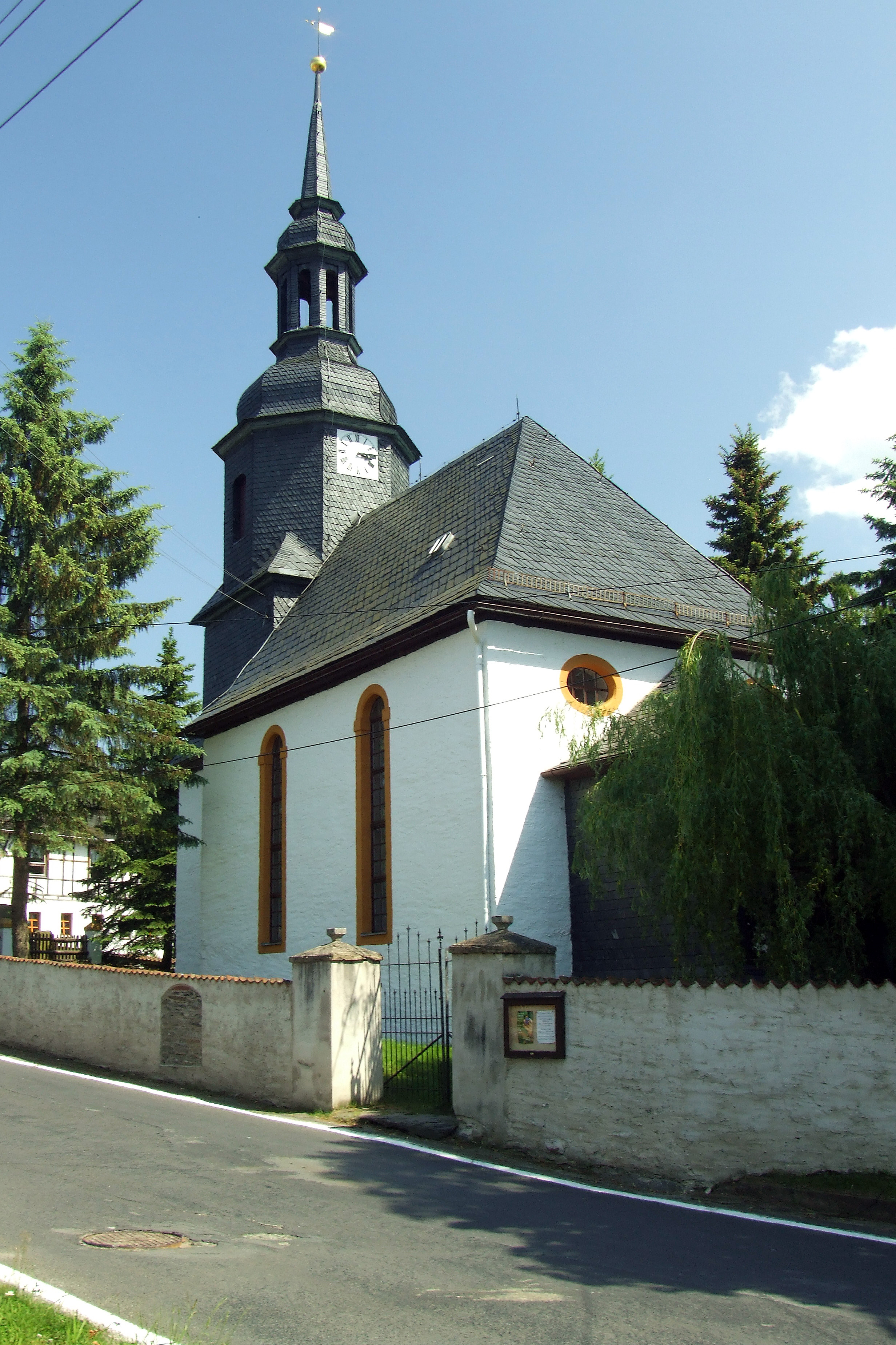 Church Reitzengeschwenda